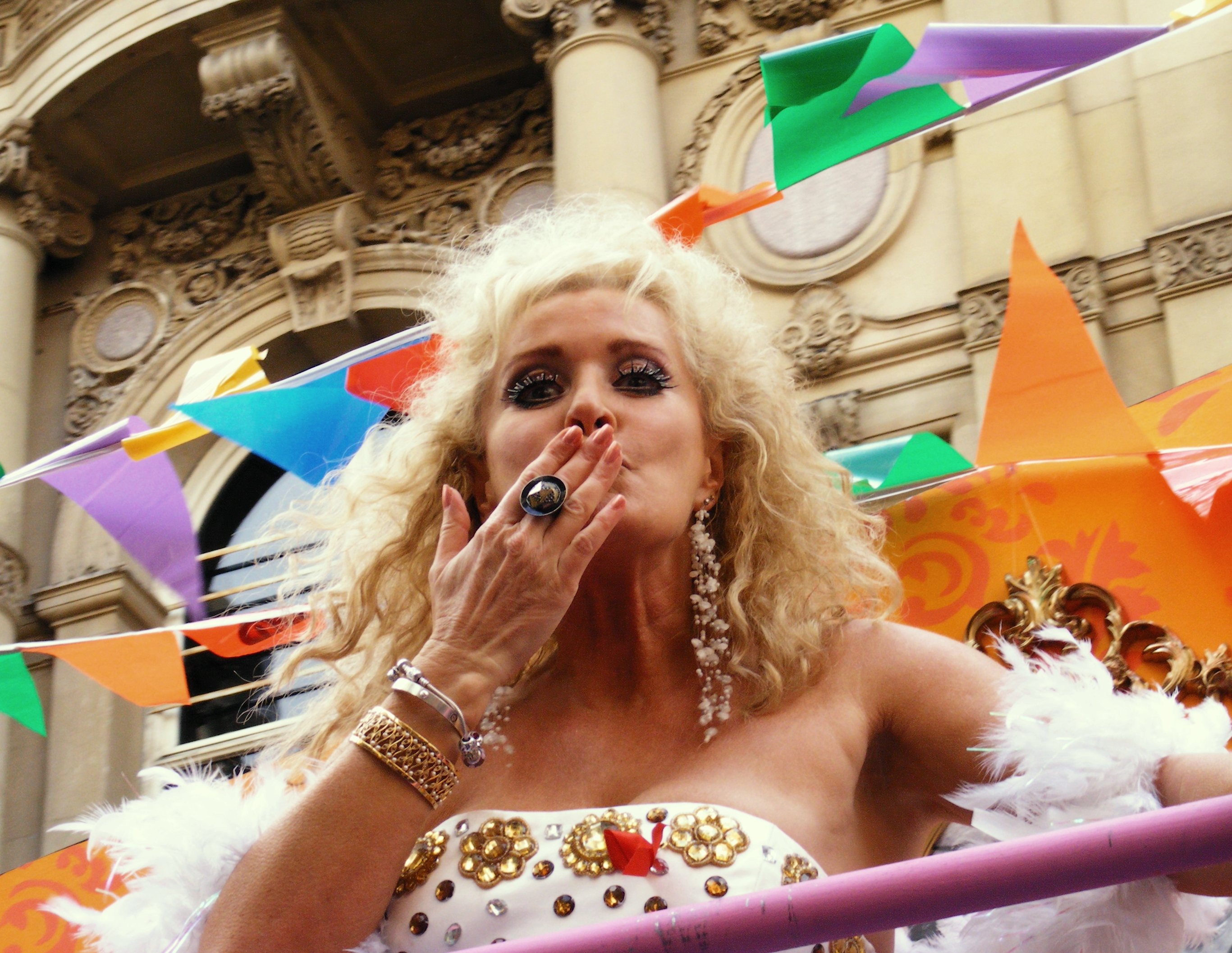 Beverley Callard, actress in Coronation Street, participating in Manchester Pride 2010, on a Coronation Street float, along with other stars of the show.